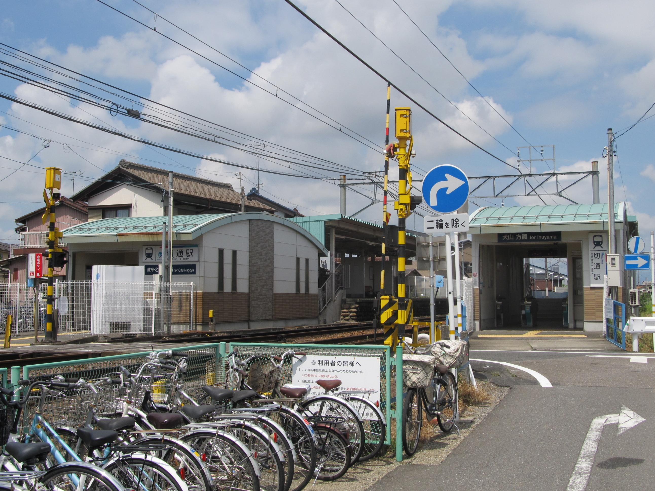 Nagoya Railroad Kakamigahara Line Kiridōshi Station Building